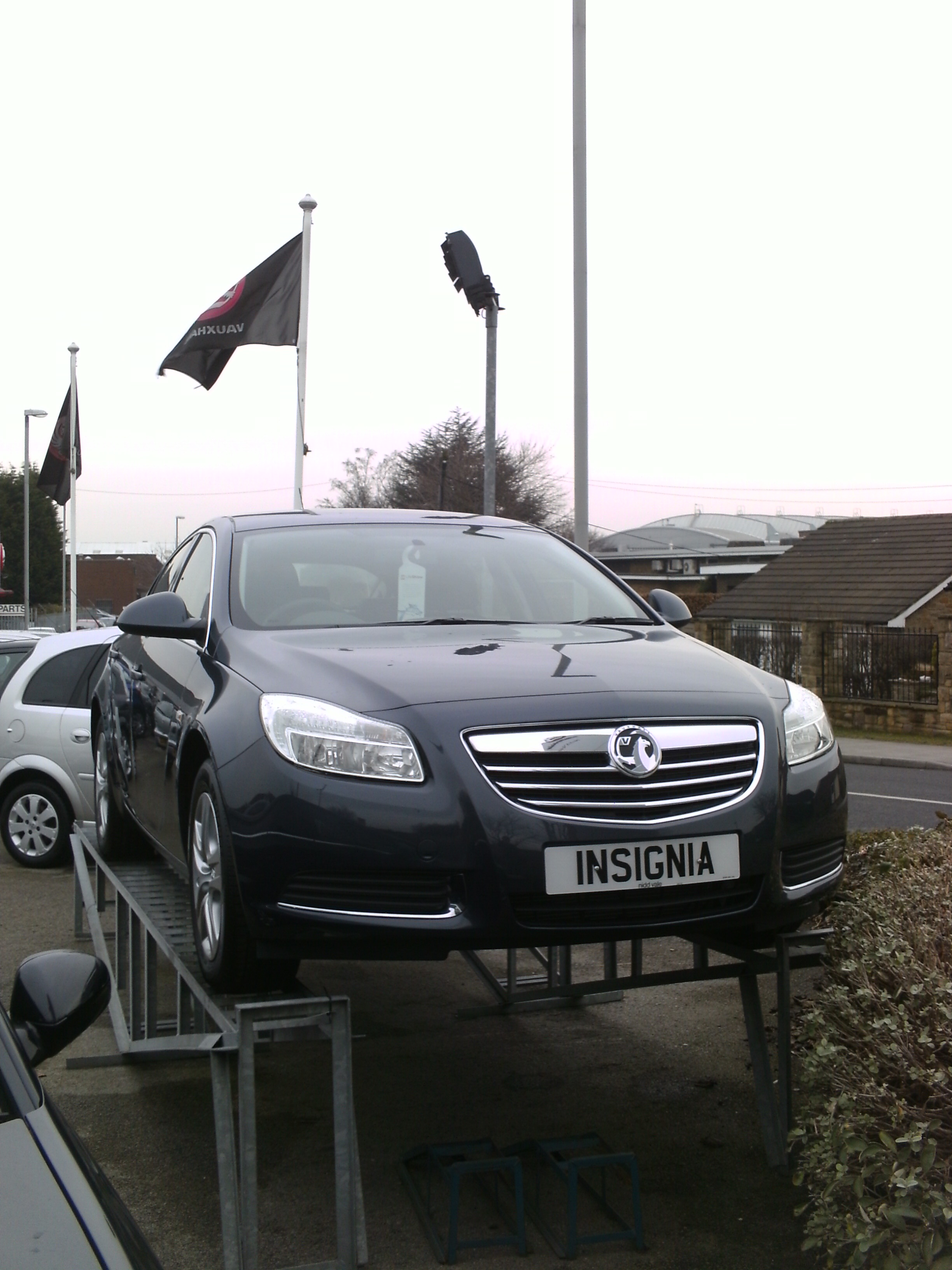 Vauxhall Insignia parked in a garage forecourt in Wetherby, West Yorkshire, UK.